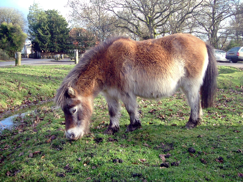 New Forest, Hampshire, by Joe D, January 2005.